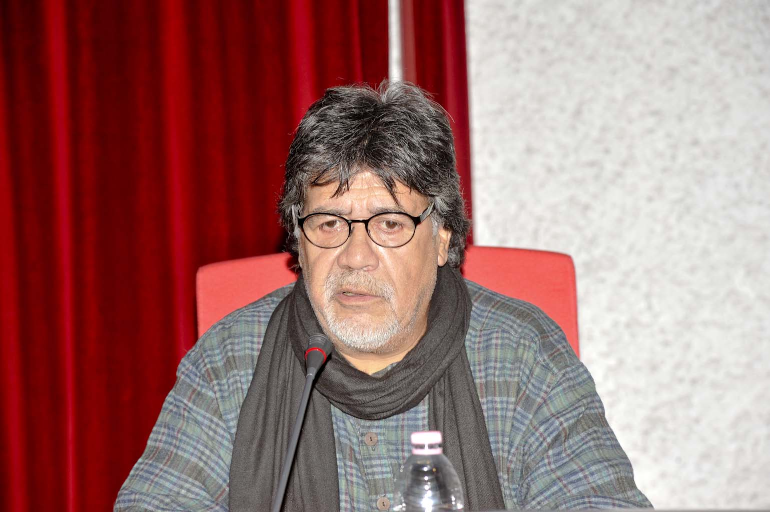 Luis Sepúlveda in 2014